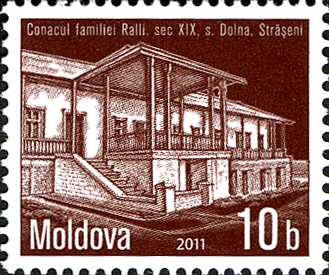 Stamps of Moldova